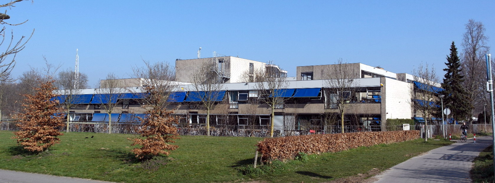 Maastricht, the Netherlands. View of Porta Mosana College, a public secondary school in Heer-Maastricht.